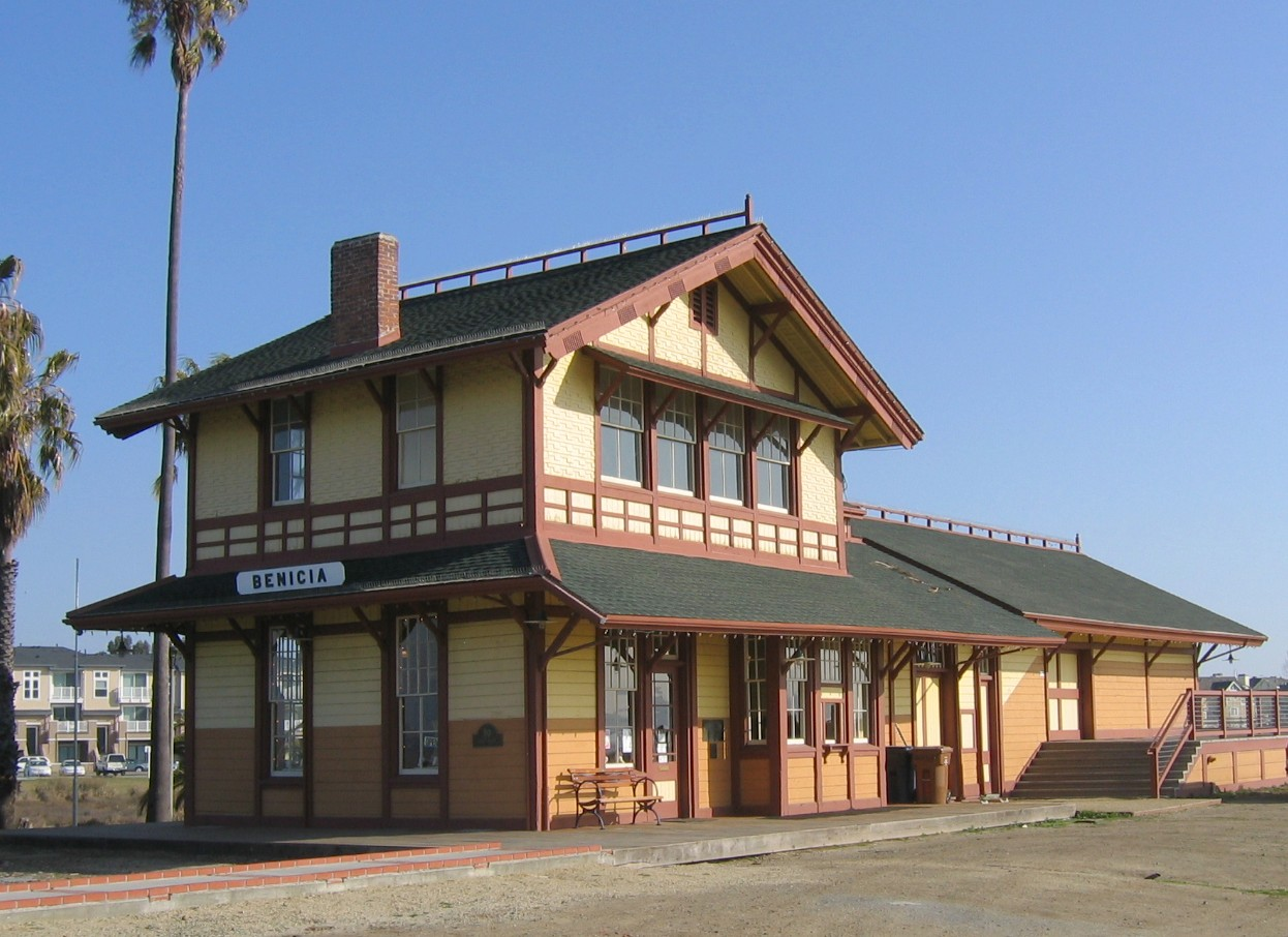 Southern Pacific station built in 1897. Restored and relocated to Benicia, California. Now a candy store. Same design (Standard Plan #18) as the restored station in Lovelock, NV, and probaby a few others along the old SP.